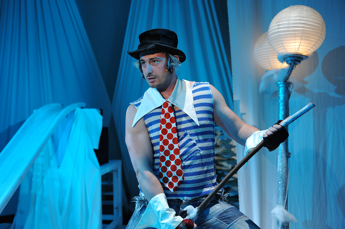 Davorin Dinić u ulozi Vuka u predstavi "Bila jednom jedna zima"